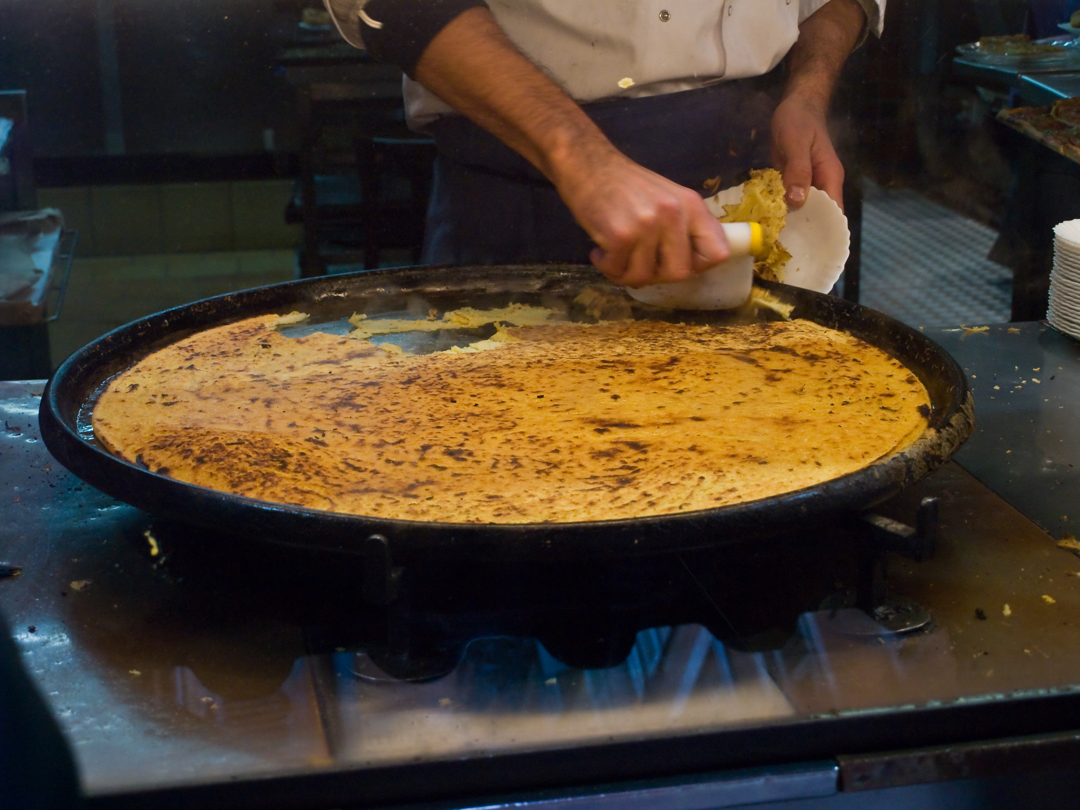 Socca, just coming out of the oven and served hot, in the old town of Nice (Vieux-Nice), on the French Riviera (Alpes-Maritimes, France).